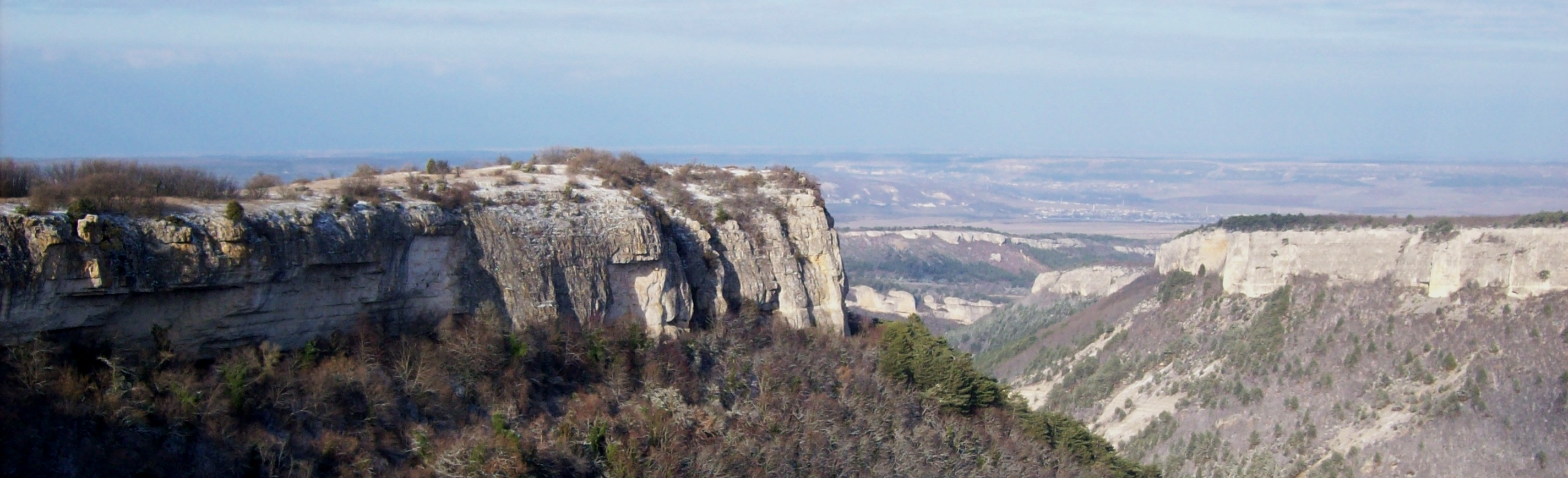 Mangup highland, Elli-burun. Crimea